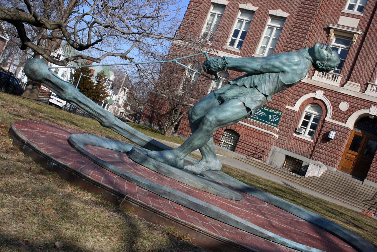 Bronze and brick Brighton, MA, USA